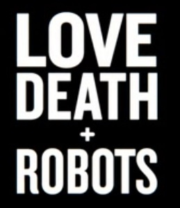 Logo of the NETFLIX series Love Death & Robots